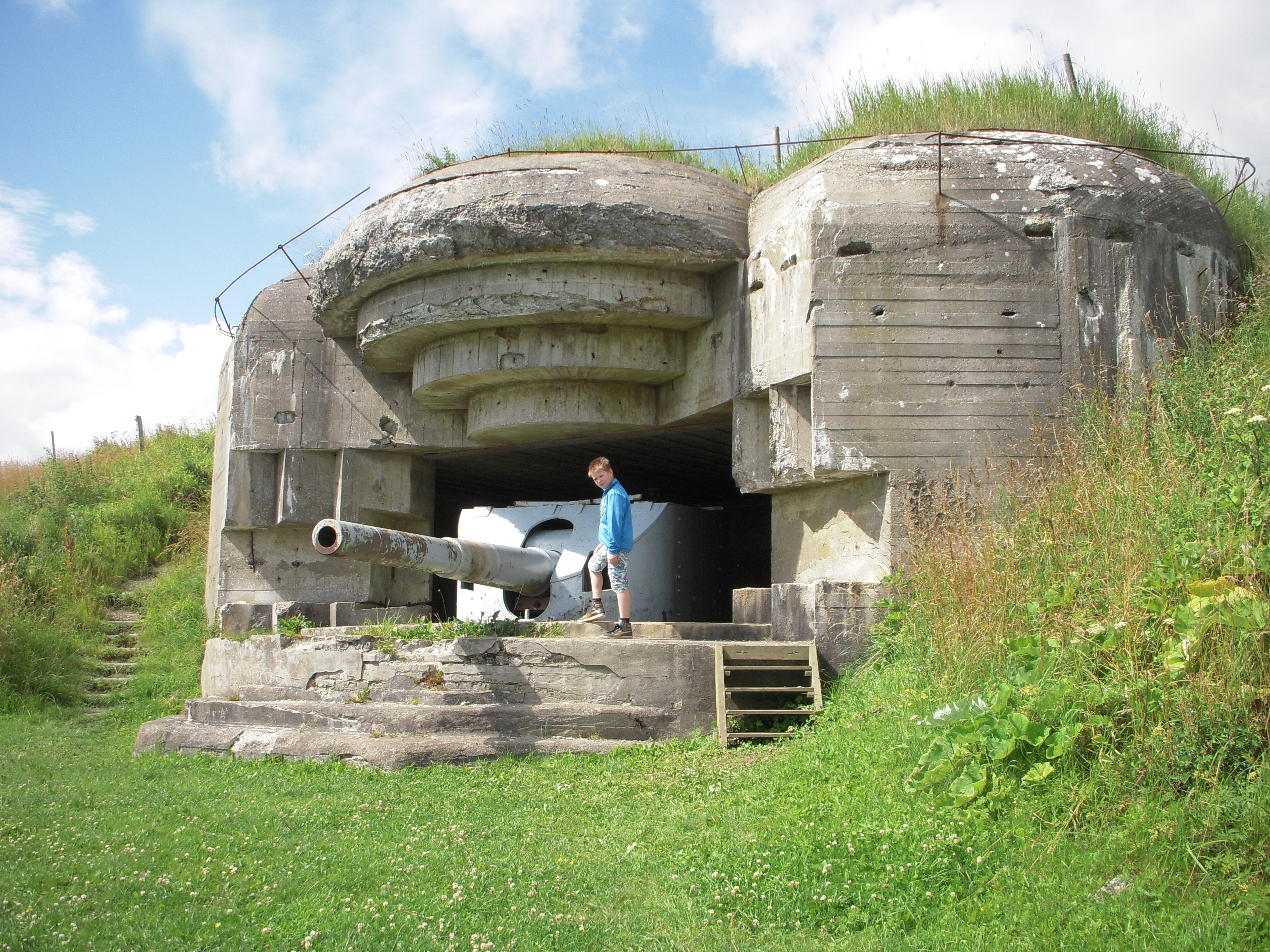 One of the guns from the frigate "Niels Juel" in its shelter at Bangsbo Fort, Frederikshavn, Denmark. July 16, 2012.